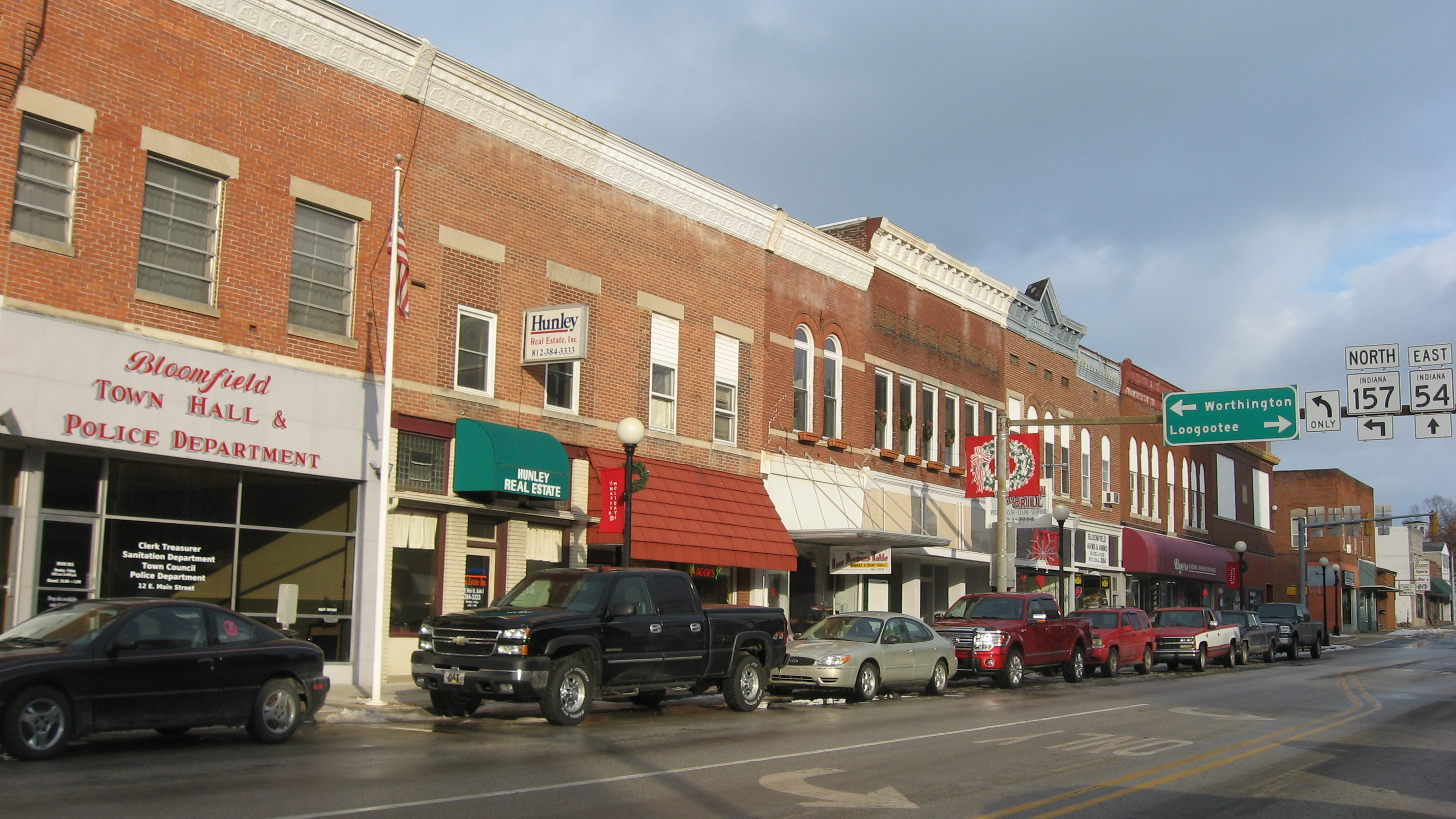 Buildings in the first block of E. Main Street (U.S. Route 231/State Road 54) in downtown Bloomfield, Indiana, United States.